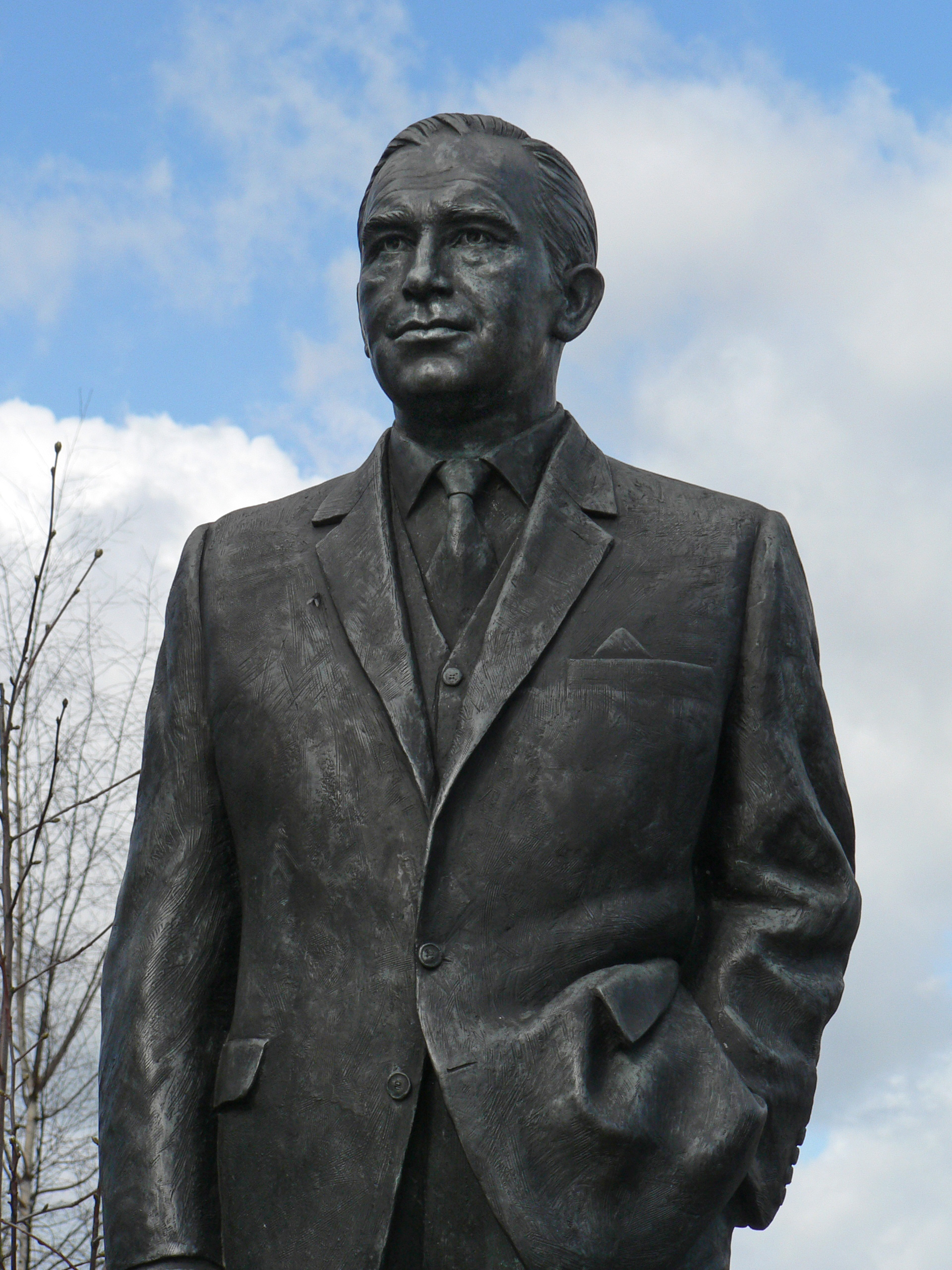 Close up of Sir Alf Ramsey's statue outside Ipswich Town Football Club